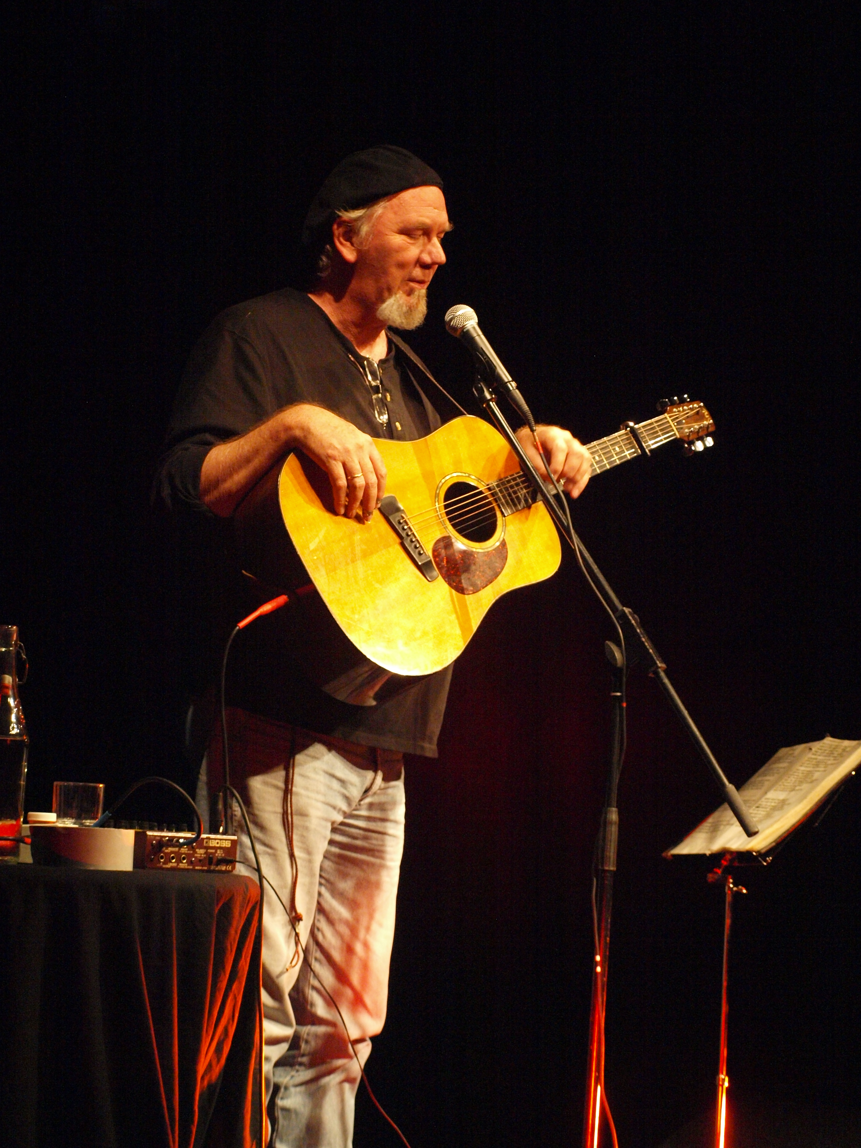 Playing Wexford Arts Center, Wexford, Ireland on Saturday 26th September, 2009 was Texas singer/songwriter and Bluesman Eric Taylor.